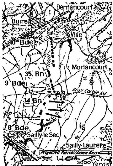 Map depicting Australian positions along the frontline during the Second Battle of Morlancourt